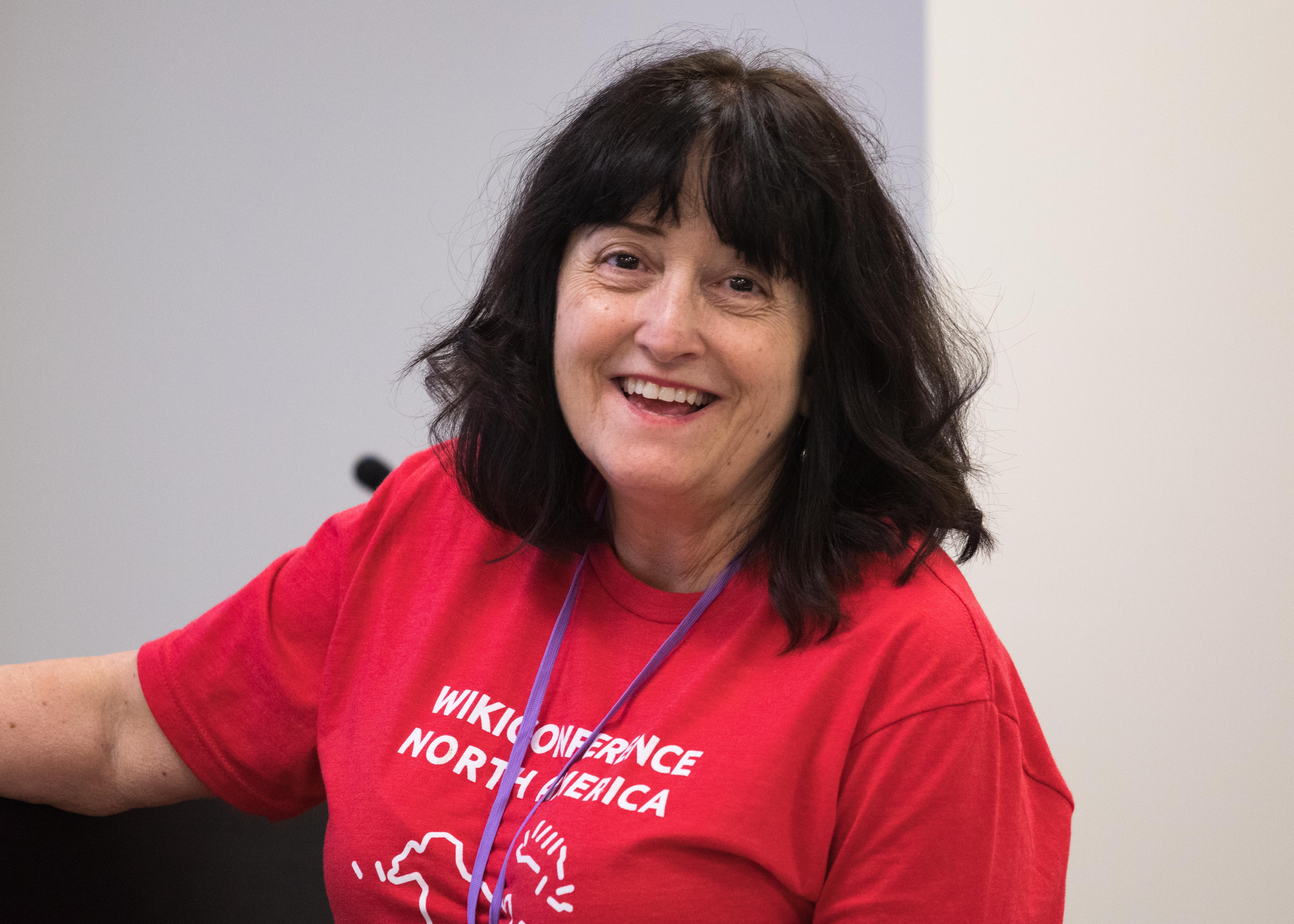 Rosie Stephenson-Goodknight presenting at WikiConference North America 2018, Saturday, October 20th